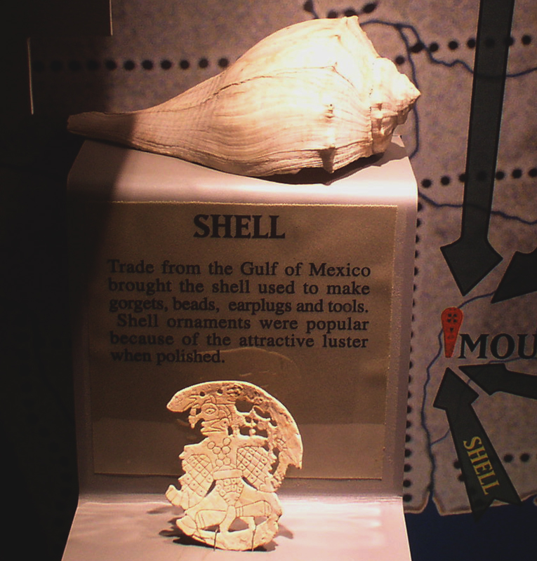 A whelk shell amd a Mississippian culture Hightower style Shell gorget on display at the Moundville Archaeological Site.